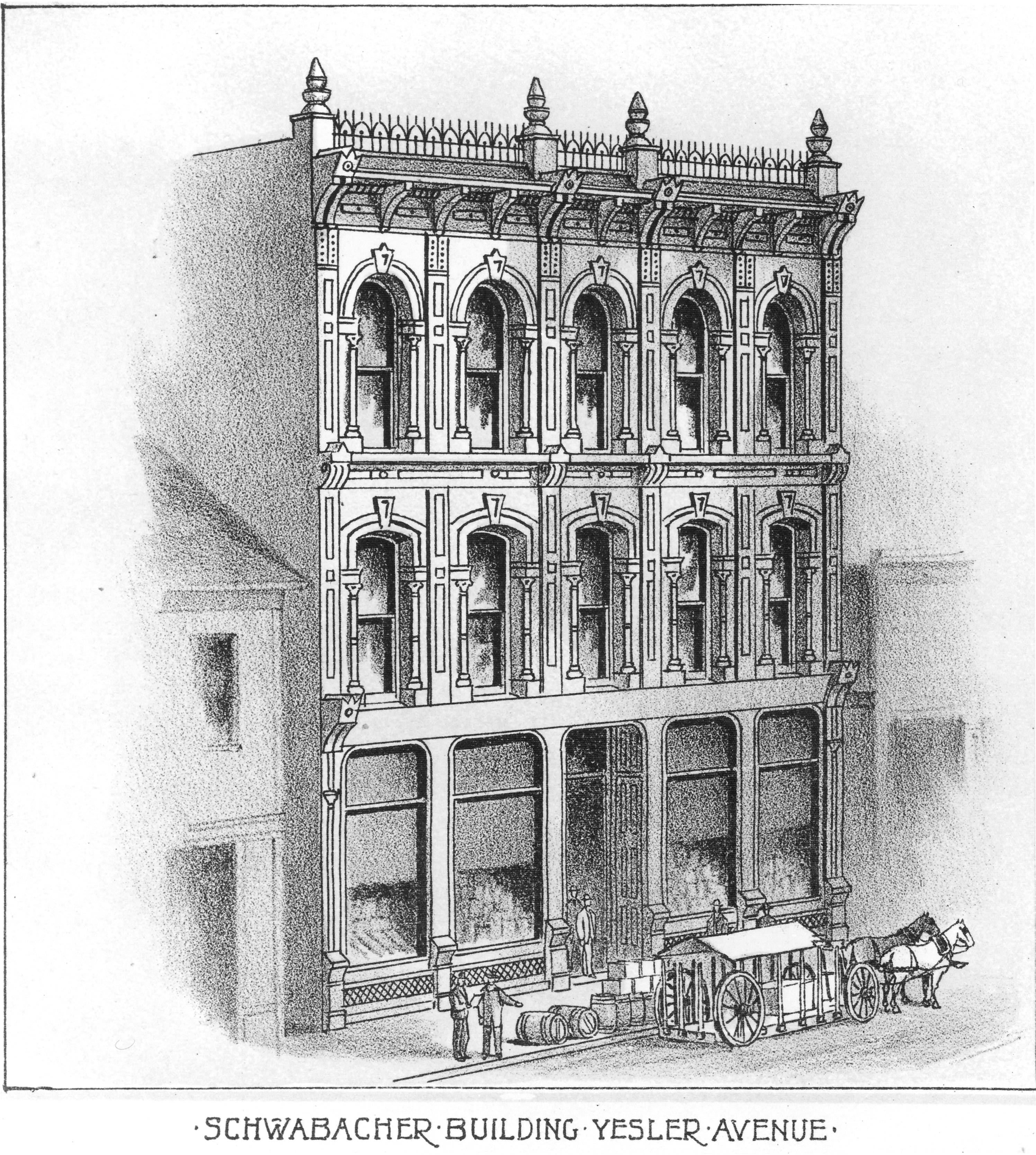 Photograph of illustration. Caption on image: Schwabacher Building Yesler Avenue On verso of image: Pre-fire Schwabacher Bldg., E. Fisher, architect Subjects (LCTGM): Schwabacher Building (Seattle, Wash.)--Drawings; Buildings--Washington (State)--Seattle--Drawings Subjects (LCSH): Second Avenue (Seattle, Wash.); Wagons--Washington (State)--Seattle; Pioneer Square-Skid Road Historic District (Seattle, Wash.); Central business districts--Washington (State)--Seattle